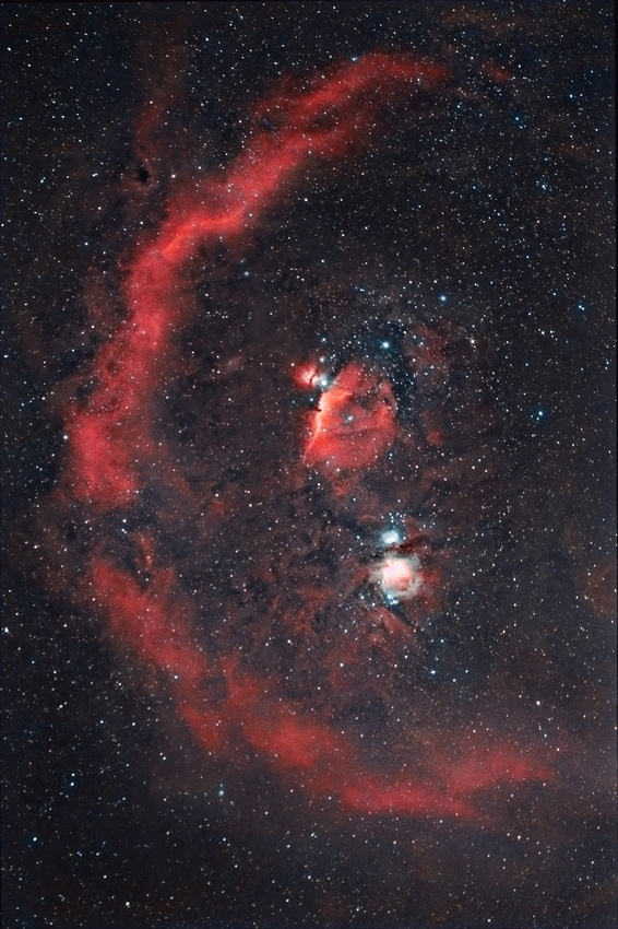 Barnard's Loop Taken with Canon 350D and 70-200L Lens. RGB and Hydrogen alpha light.